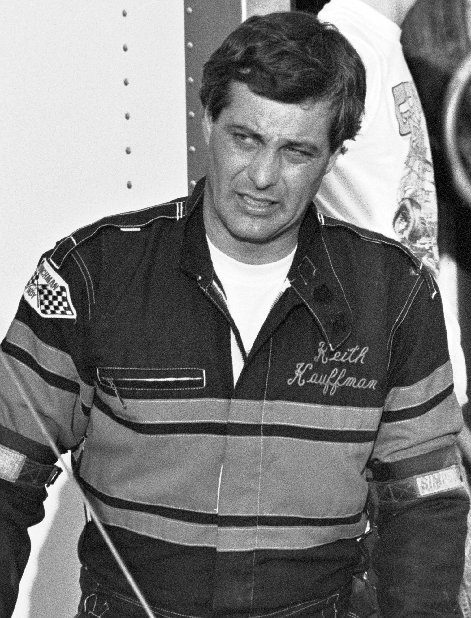 Sprint car racer and dirt champ car winner Keith Kauffman. Photo By Ted Van Pelt